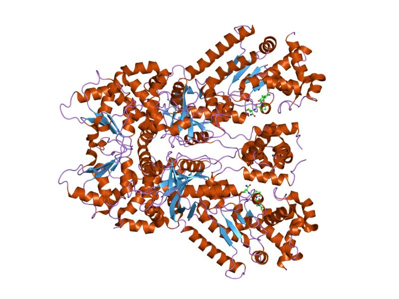 Cartoon representation of the molecular structure of protein registered with 1pwq code.